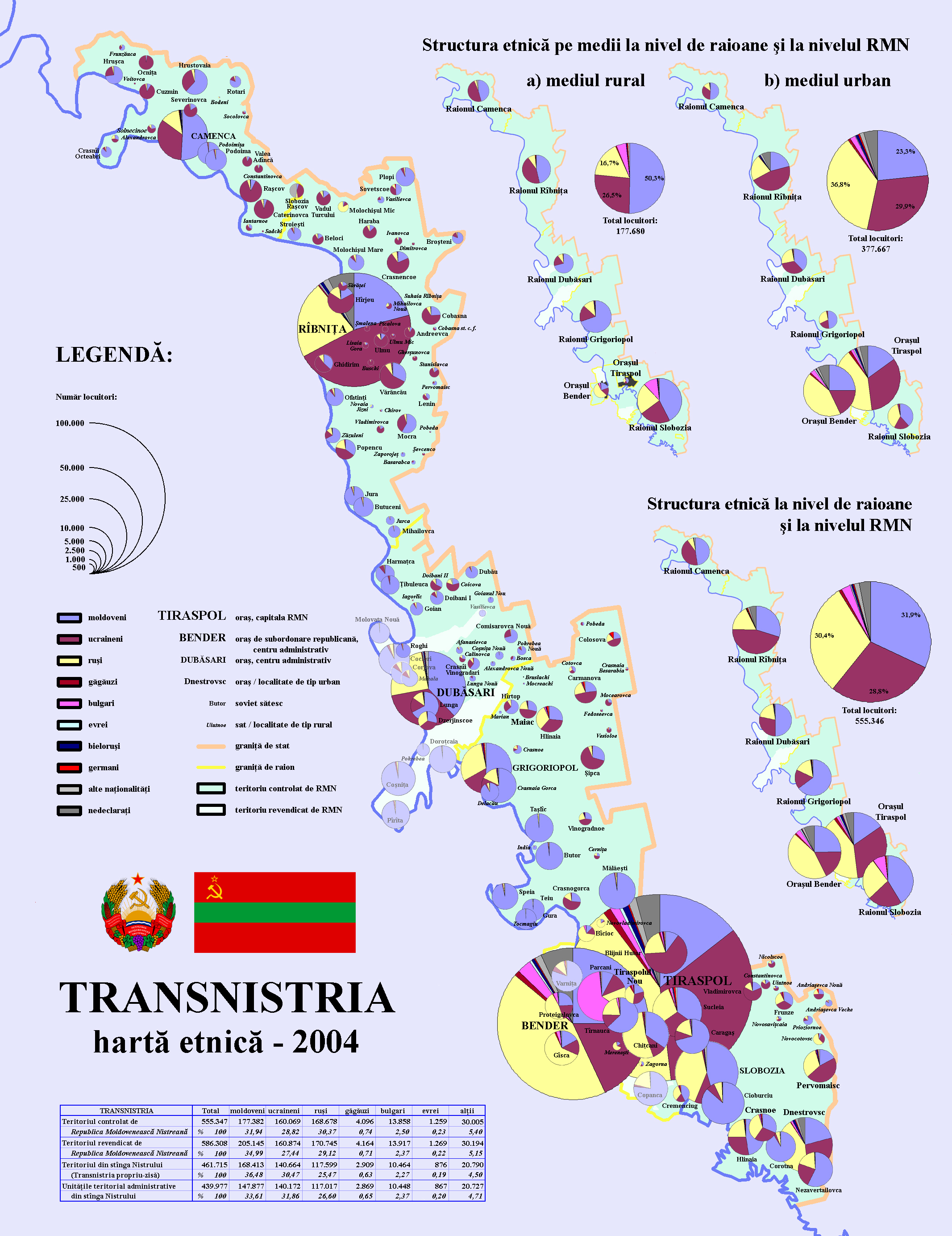 Ethnic map of Transnistria according to 2004 census data held by separatist authorities